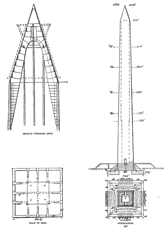 Science American Association for the Advancement of Science Published 1885